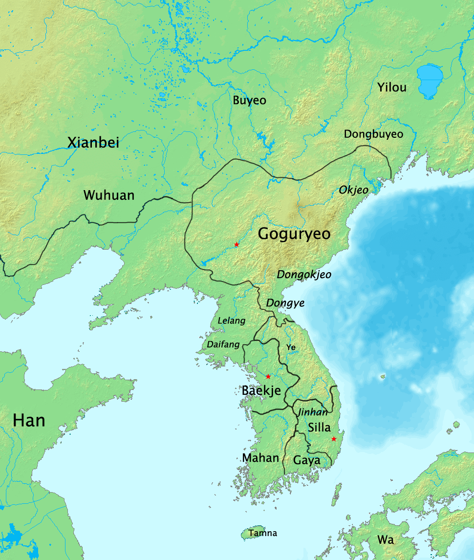 Korea and its neighbours at 204 AD